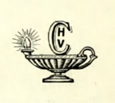 Logo of the company H.V. Christensen (defunct in the 1940s)